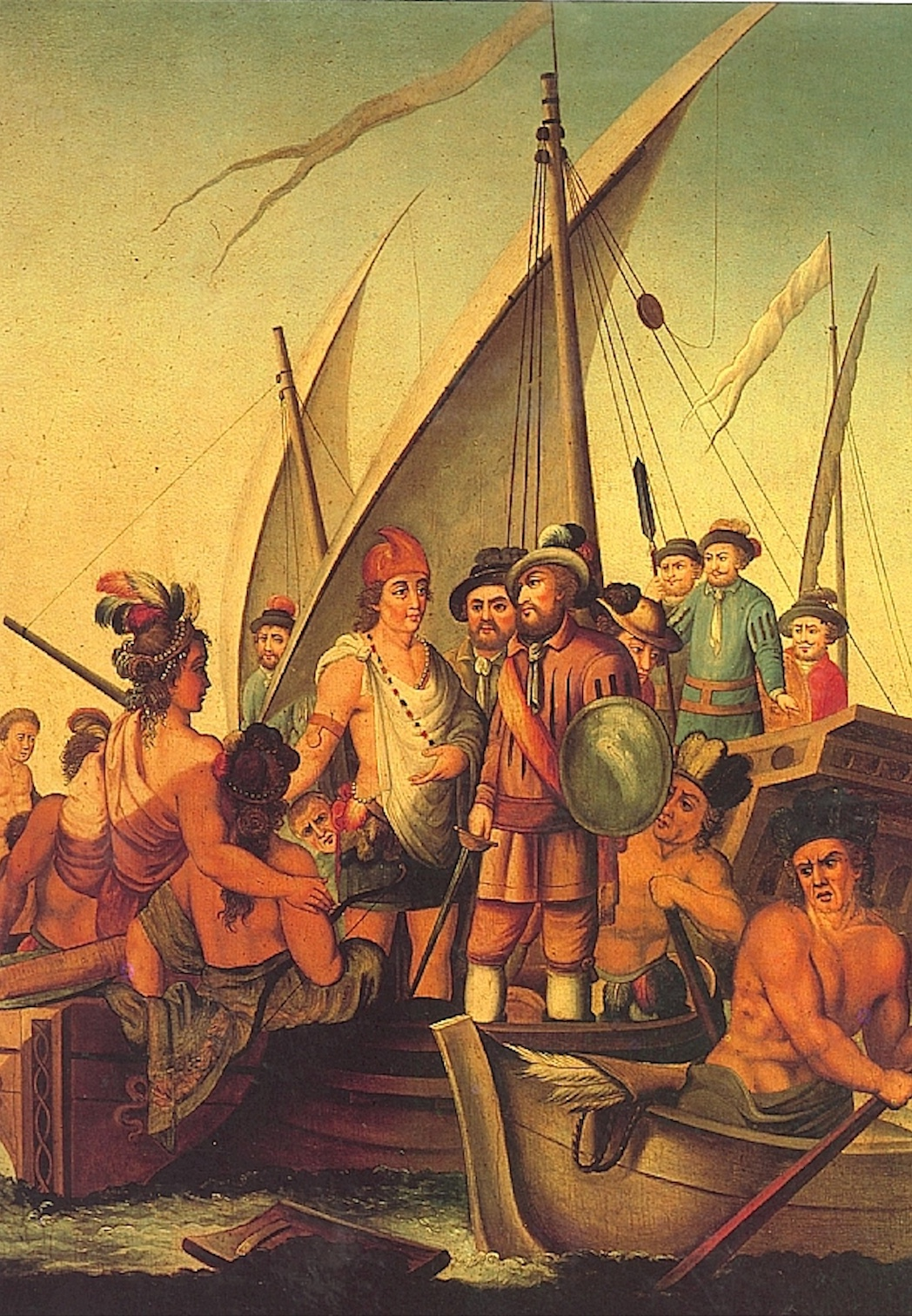 Conquest of Mexico. Francisco García de Holguín (c.1490 - c. 1560) captures Cuauhtémoc (also called Guatimozin (c. 1495-1522), last Aztec Emperor, 1519-1521. Painting on copper, 18th century.